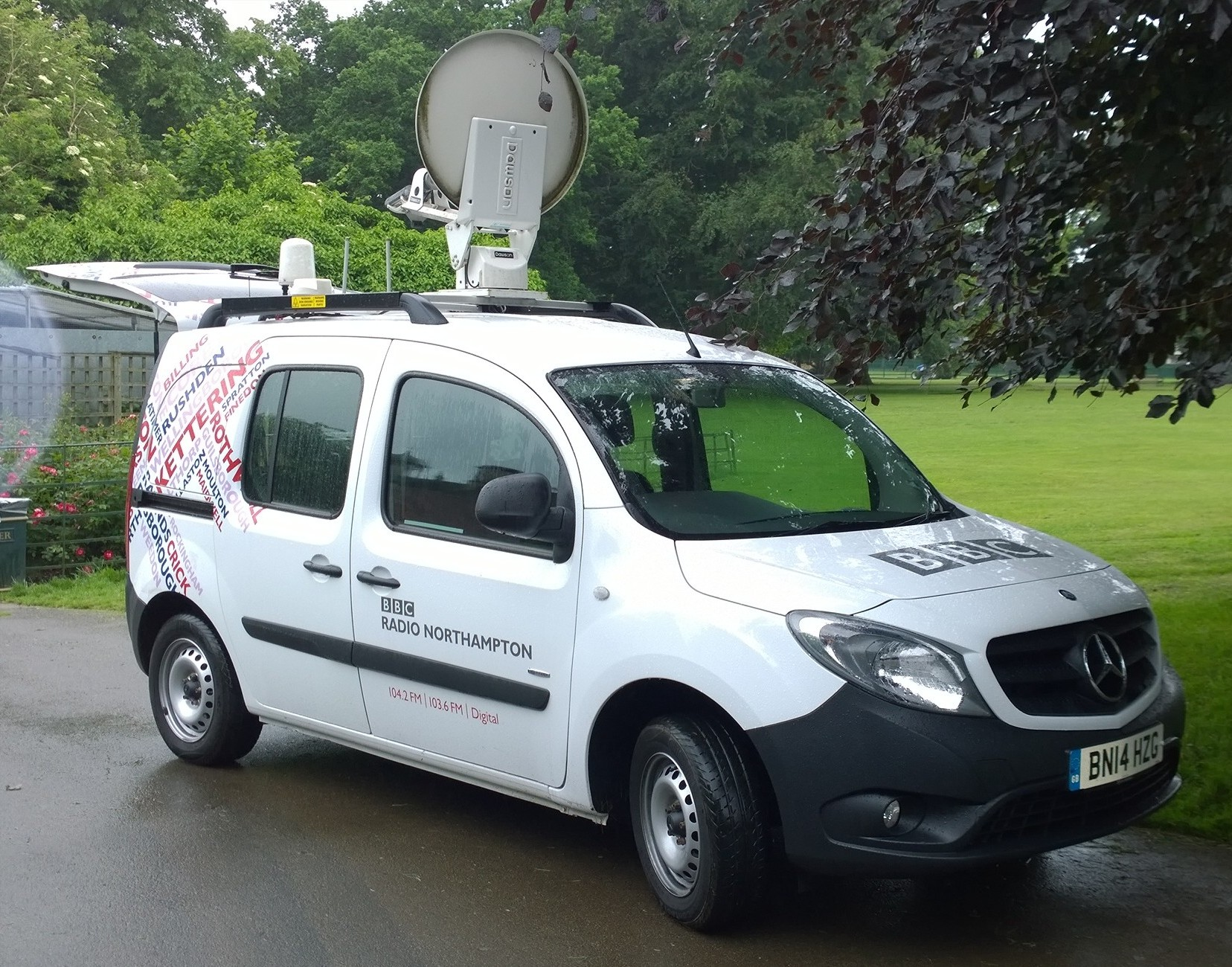 Photo of a vehicle used by BBC Radio Northampton